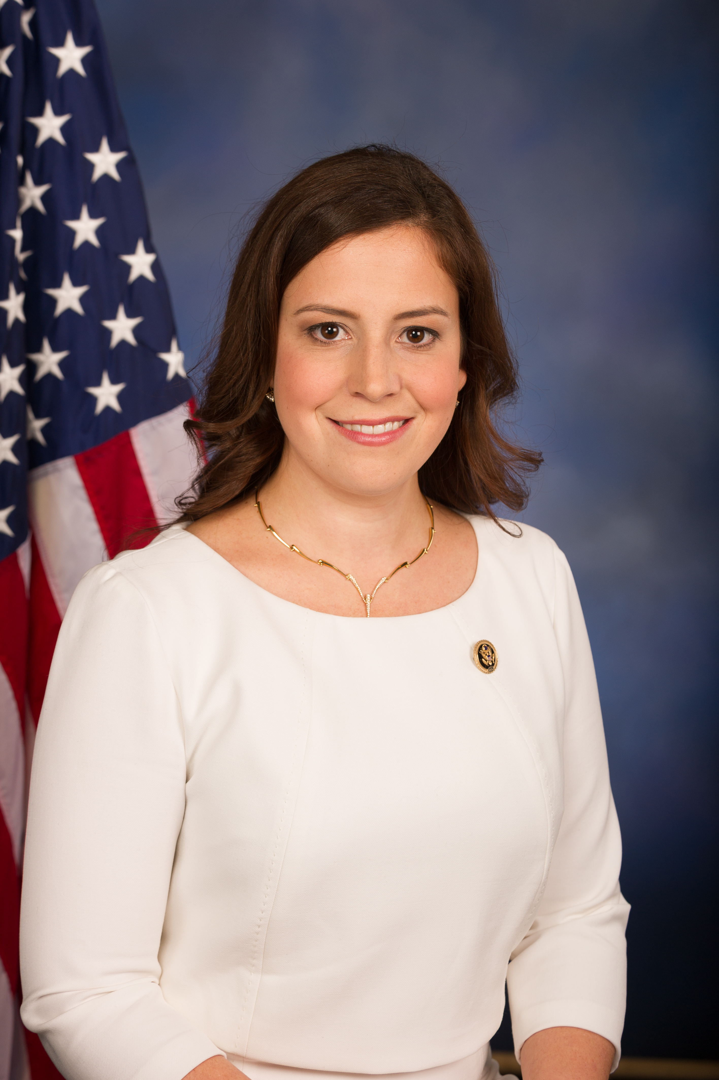 Elise Stefanik official portrait, 114th Congress